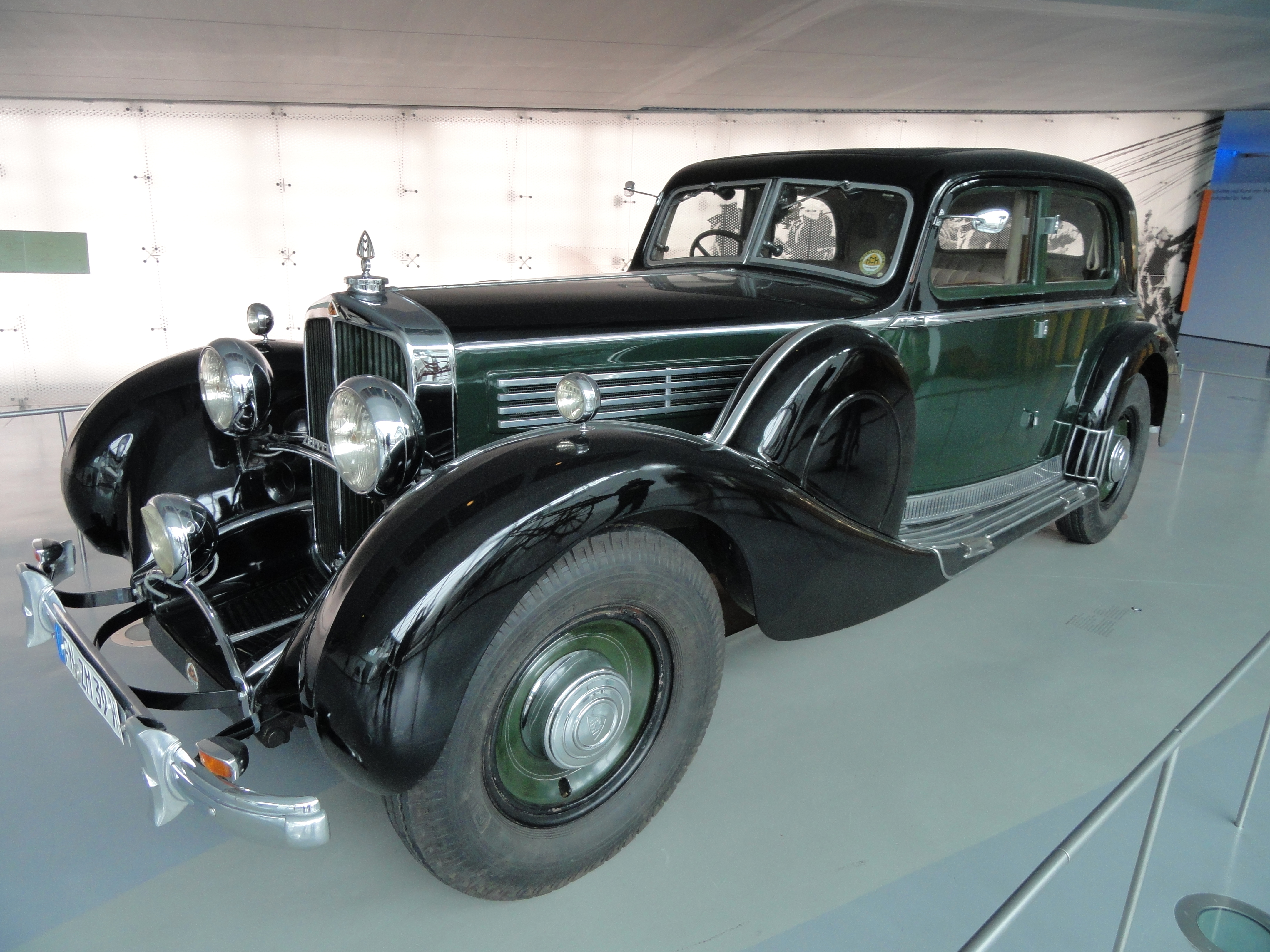 Maybach Zeppelin DS 8, 1938-39, exhibited in the Zeppelin Museum Friedrichshafen, Seestraße 22, Friedrichshafen, Germany. Photography was permitted in the museum, without restriction.